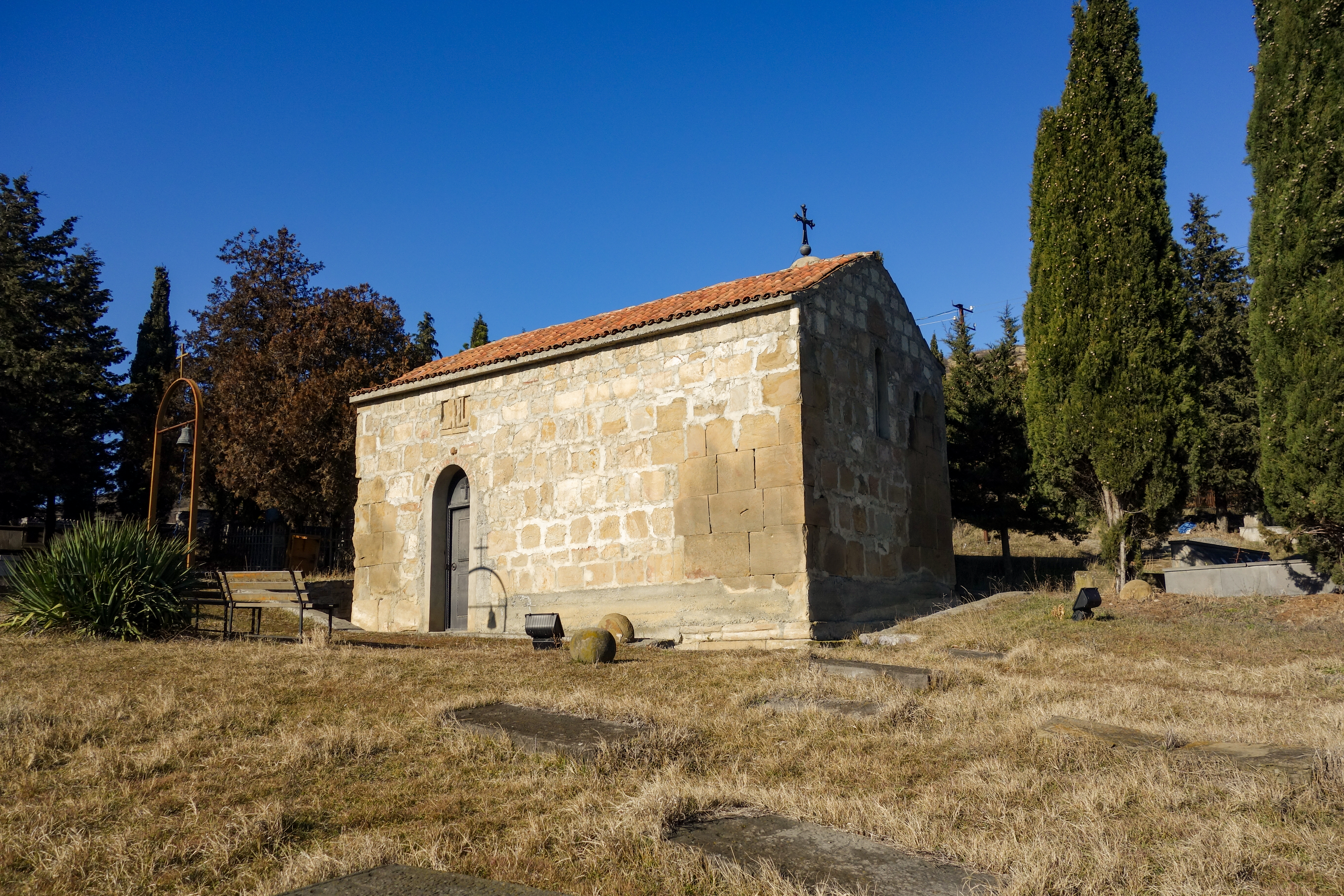 St. Estate Church, Lisi, Mtskheta District, Georgia